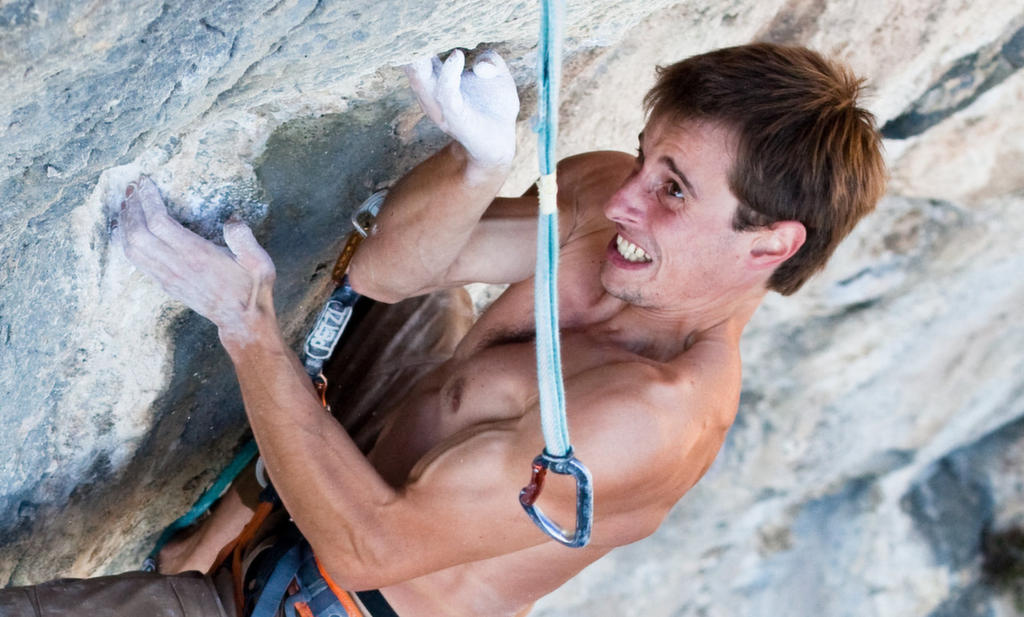 This is the athlete Gérome Pouvreau